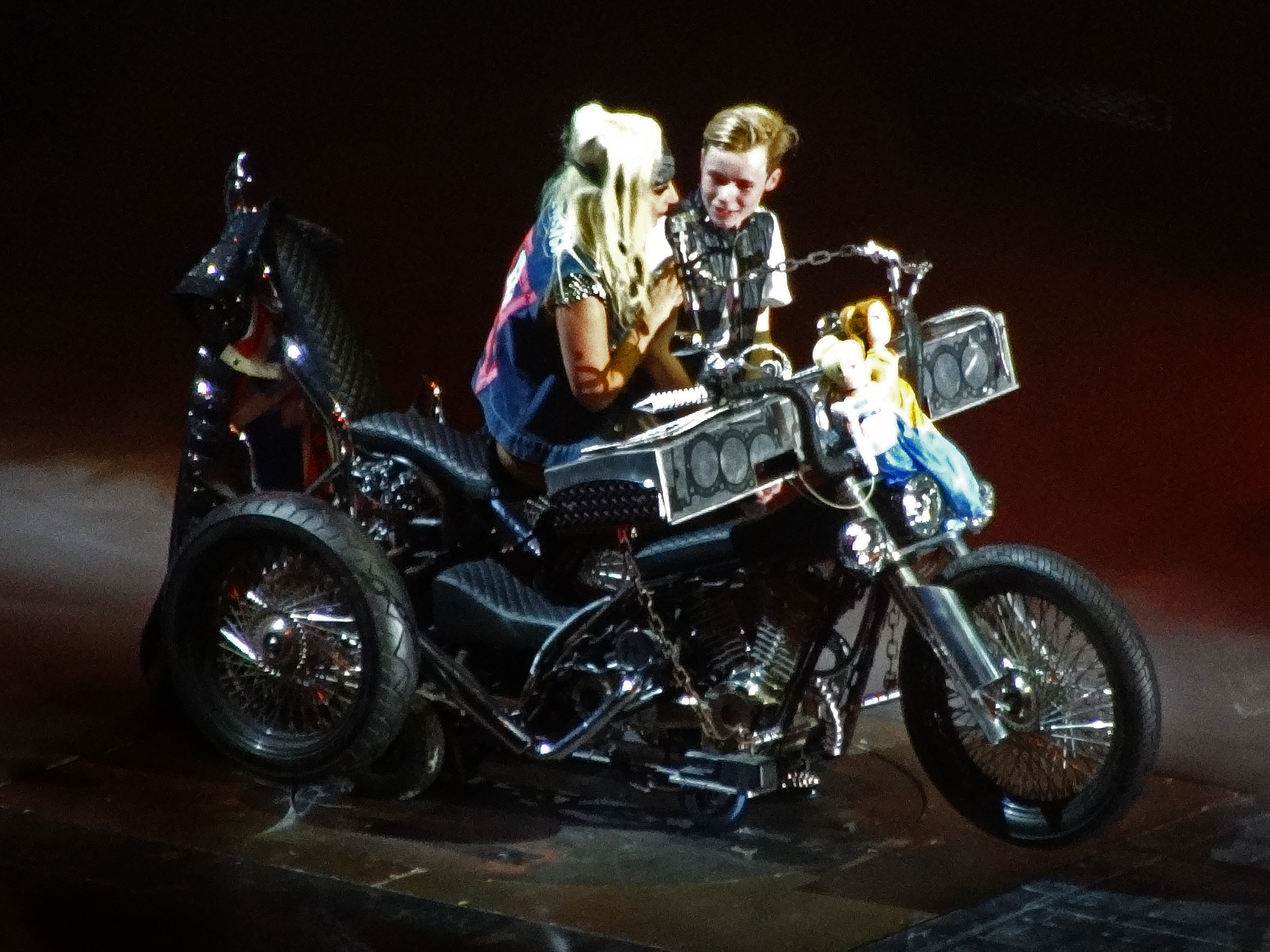 Lady Gaga performing "Princess Die" with one of her fans invited on stage on The Born This Way Ball.